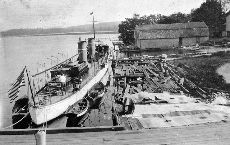 The United States Navy patrol vessel USS Cigarette (SP-1234), probably at Essex, Connecticut.